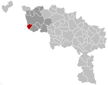 Map, municipality belgium Rumes